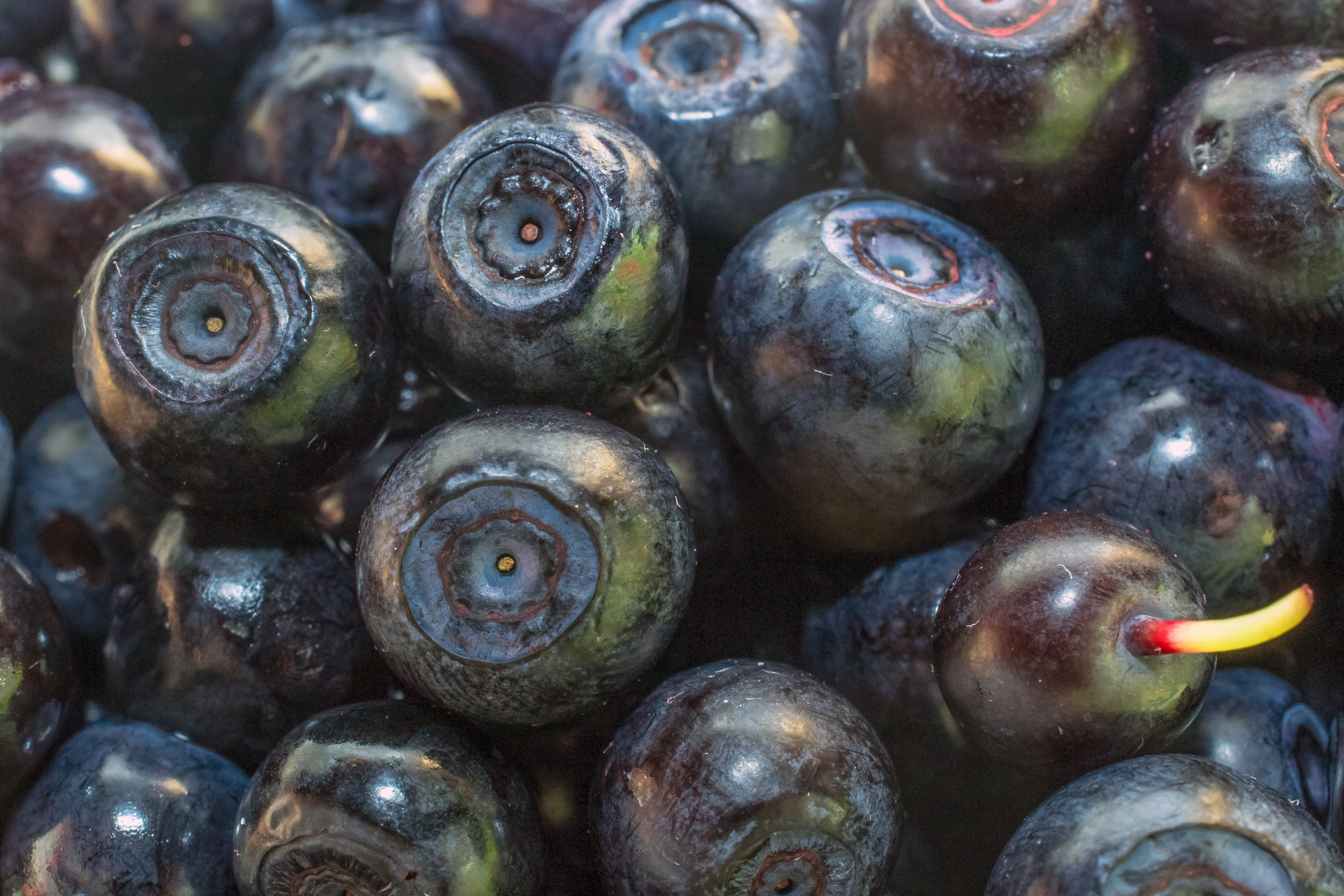 bilberries